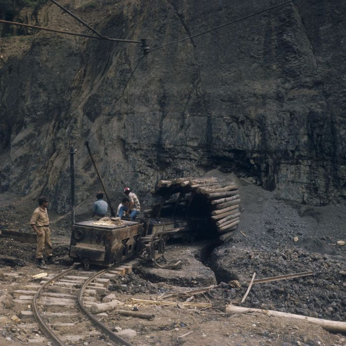 Lorries at an entry of the Ombilin coal mines